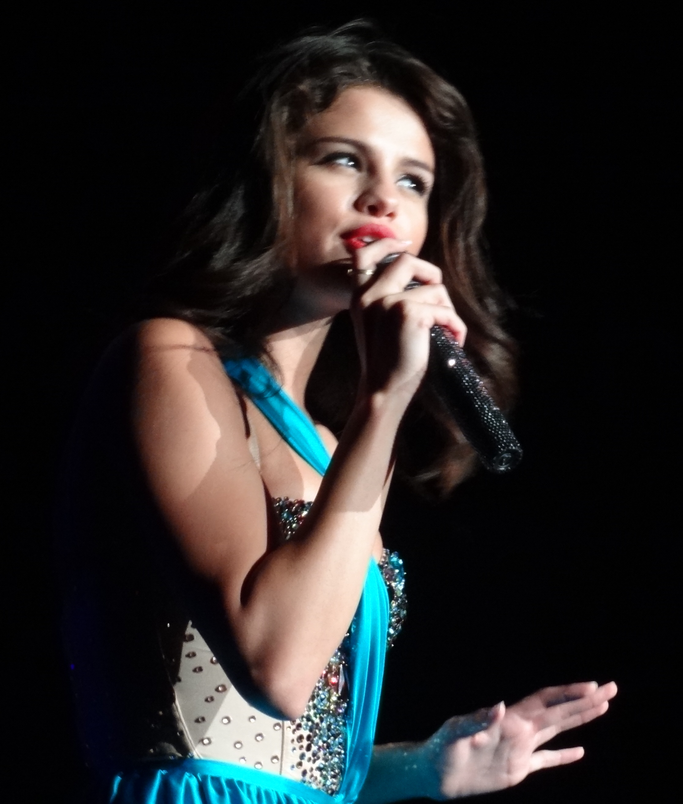 Selena Gomez at the We Own the Night Tour 2011.